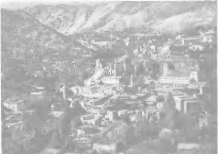 Bakhesh city full view in beginning of XIX century